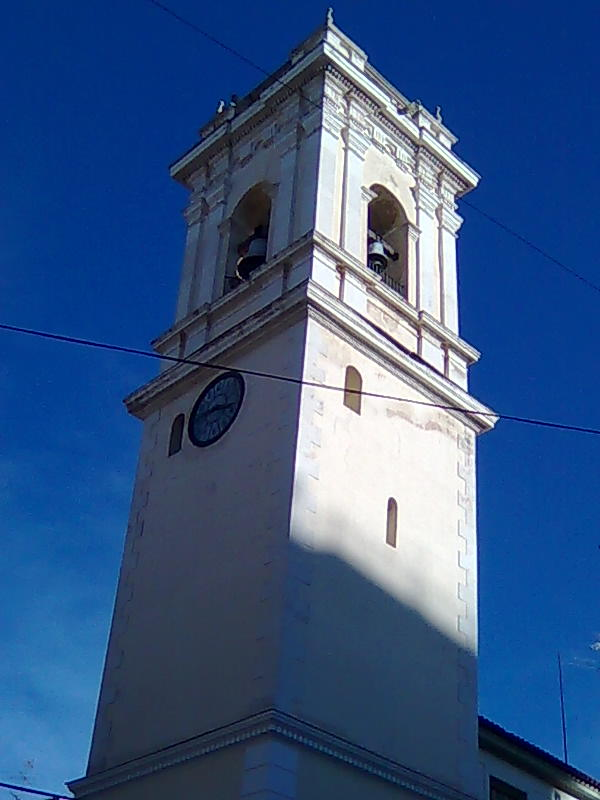 Clock Tower of Almansa (Spain).